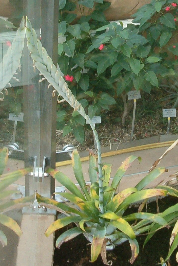 At Botanical Gardens Berlin-Dahlem Species Tillandsia heterophylla